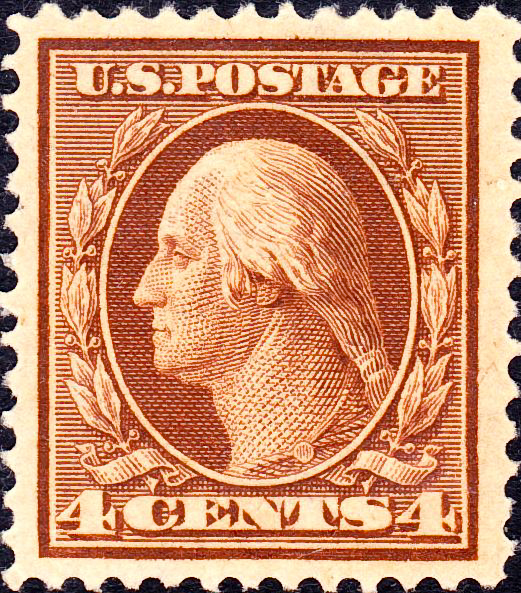 George_Washington_1908_Issue-4c.jpg